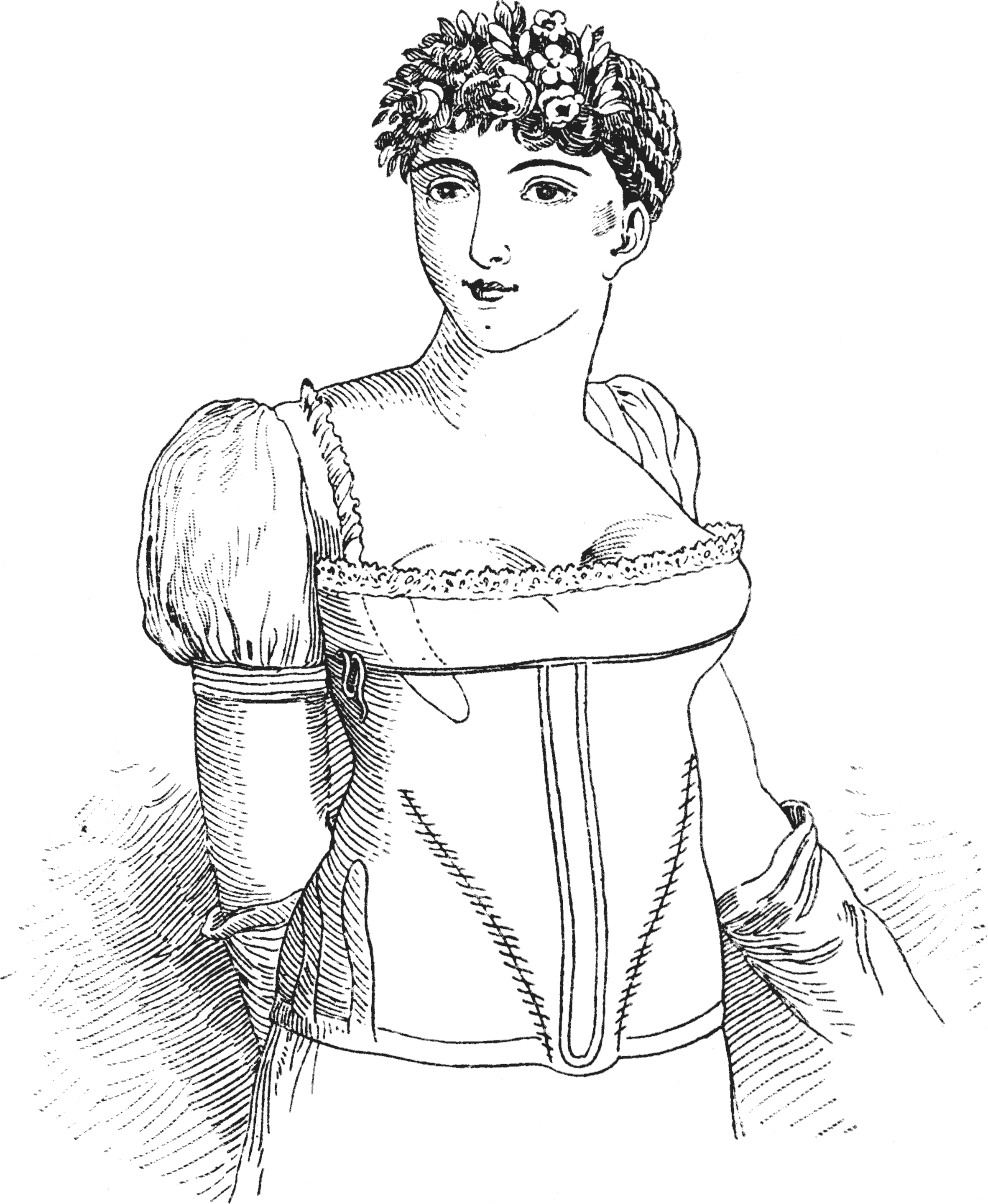 One Regency version of "long stays" ("short stays", not descending as far as these, were also worn). Note that even in the case of these long stays, the object was not to produce a narrow wasp waist. For back view, see Image:Fig_33_--_Corset_a_la_Ninon_1810_(Costumes_parisiens)a.gif .